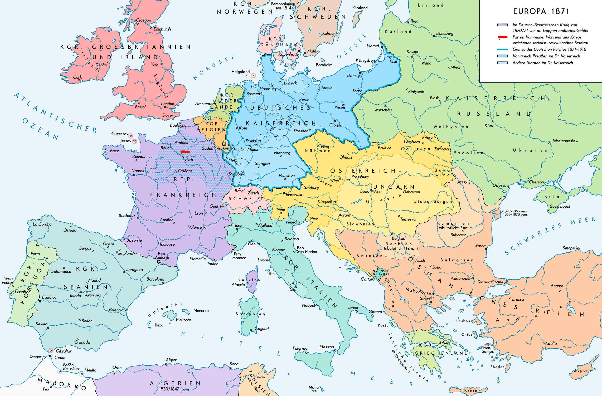 Europe 1871. Historical map of the political situation after the Franco-Prussian War (1870-1871) and the formation of the German Empire. Please don't alter the map, when you think there something not written or depicted correctly. Leave a message at the talk page of the file. After a verificiation and a possible discussion, i will upload a new map version with all new changes. This prevents an unnecessary waste of disc space and ensures a good result, aesthetically and contentwise. - The author.